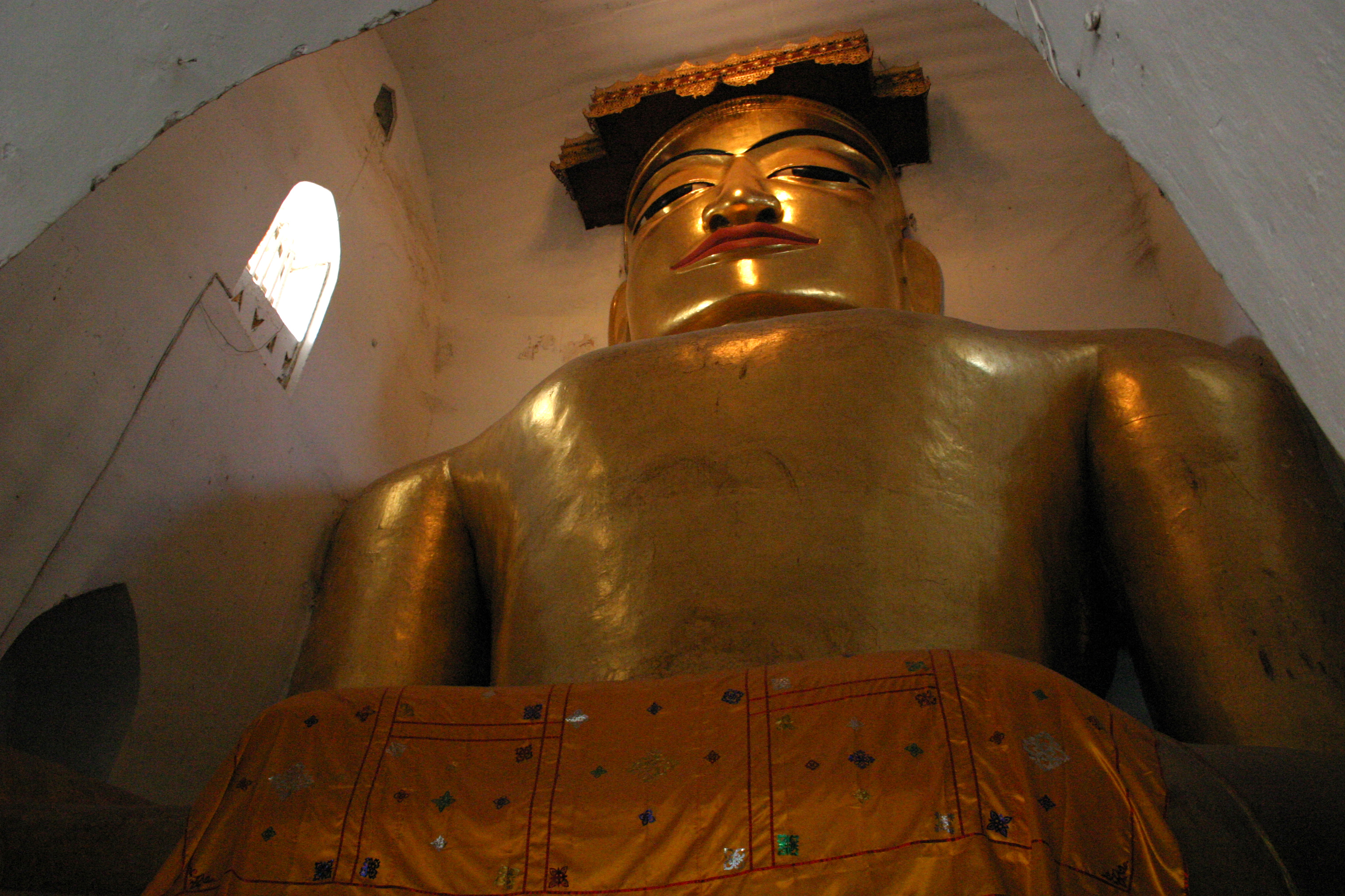 Manuha temple, Bagan, Myanmar.